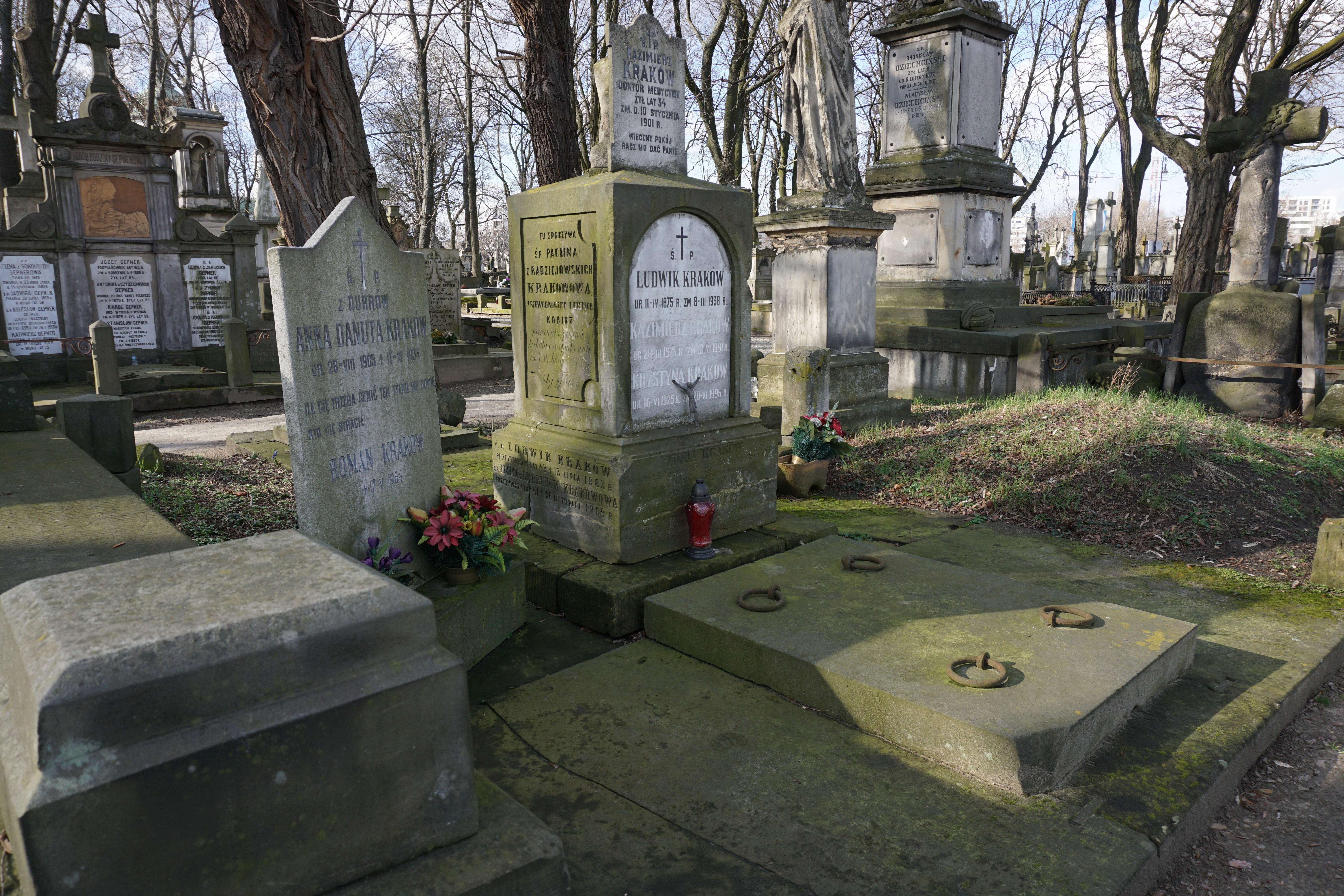 The grave of Paulina Krakowowa at the Powązki Cemetery (section 156, row 5, grave 6, 7, 8)